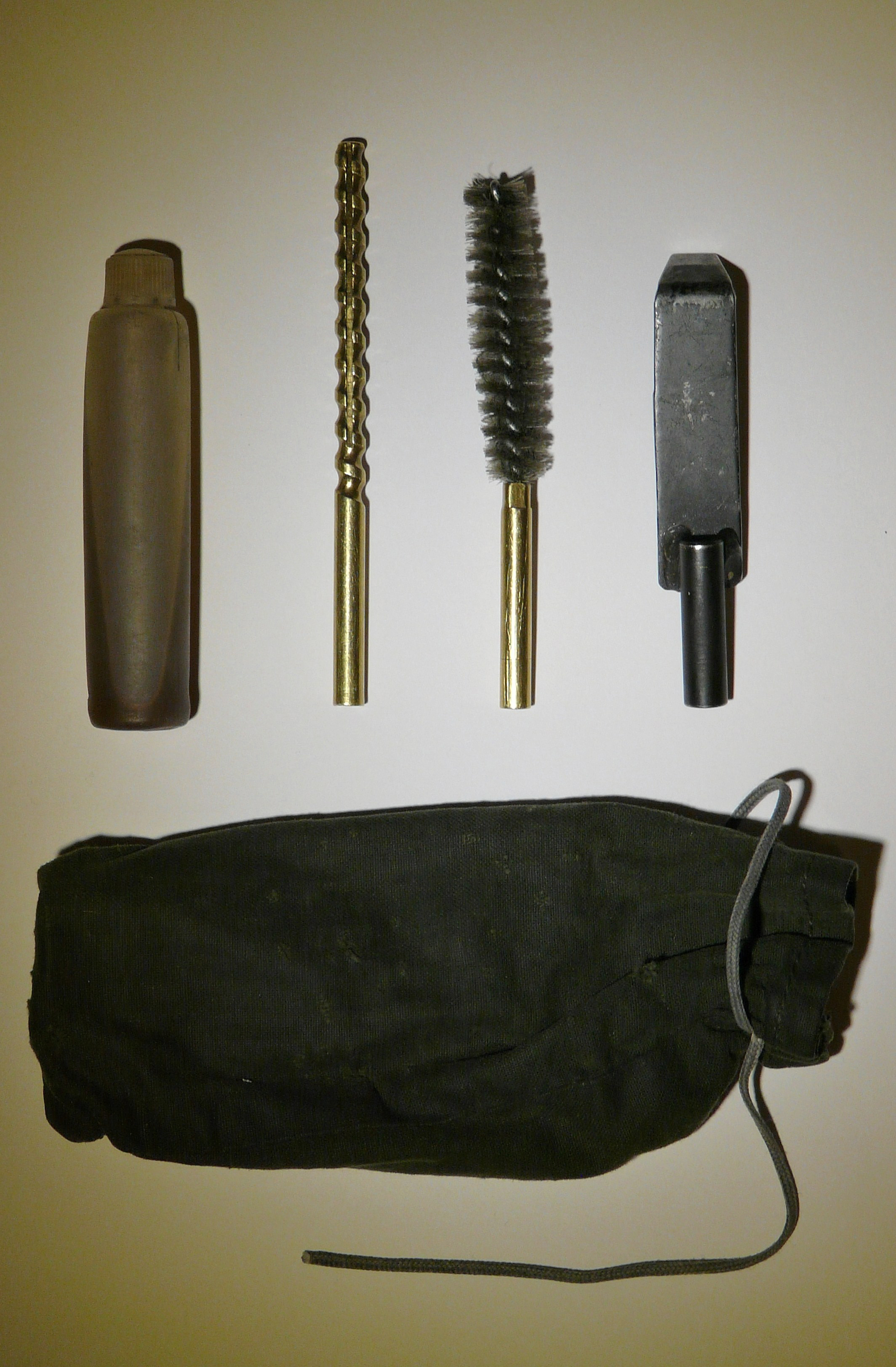 Gun cleaning tools, a sight adjustment tool and a safety bag used with Rk 95 assault rifle. Photograph taken in 2010 February.